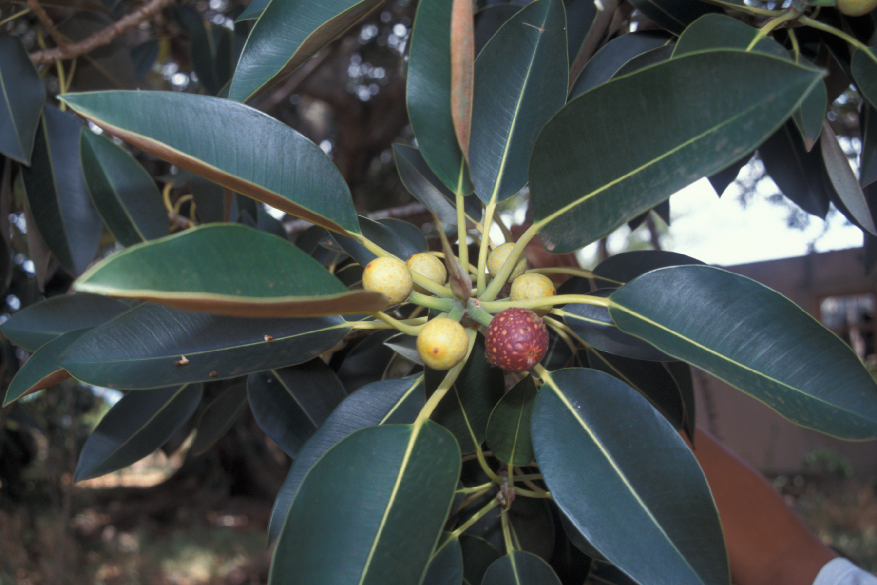 Ficus macrophylla (leaves and fruits). Location: Maui, Hamakuapoko